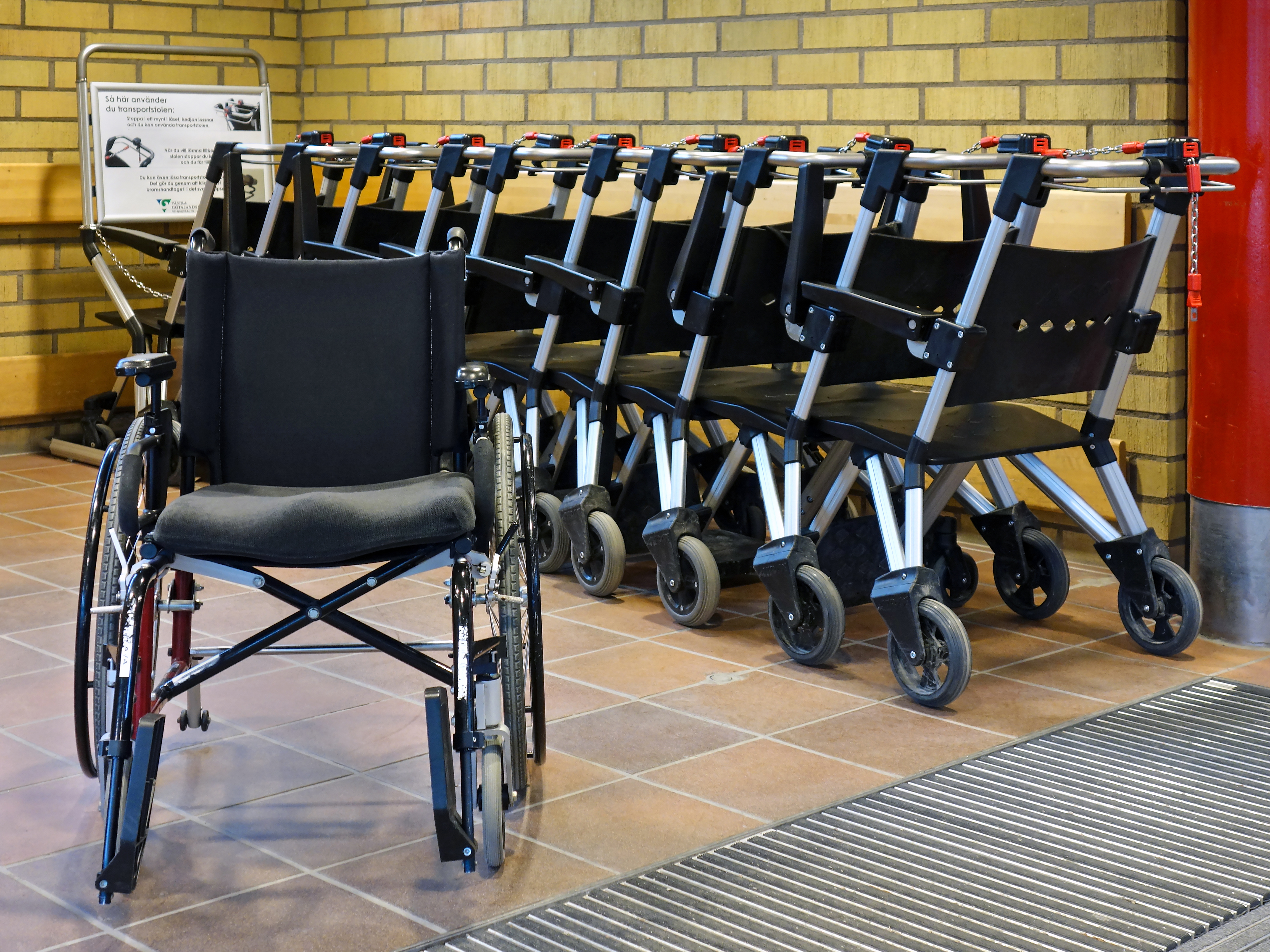 Wheelchairs for visitors at the main entrance in Norra Älvsborgs Länssjukhus (Northern Älvsborg county hospital) - NÄL, Trollhättan, Sweden.